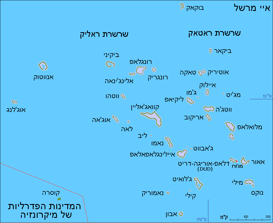 Marshal Islands